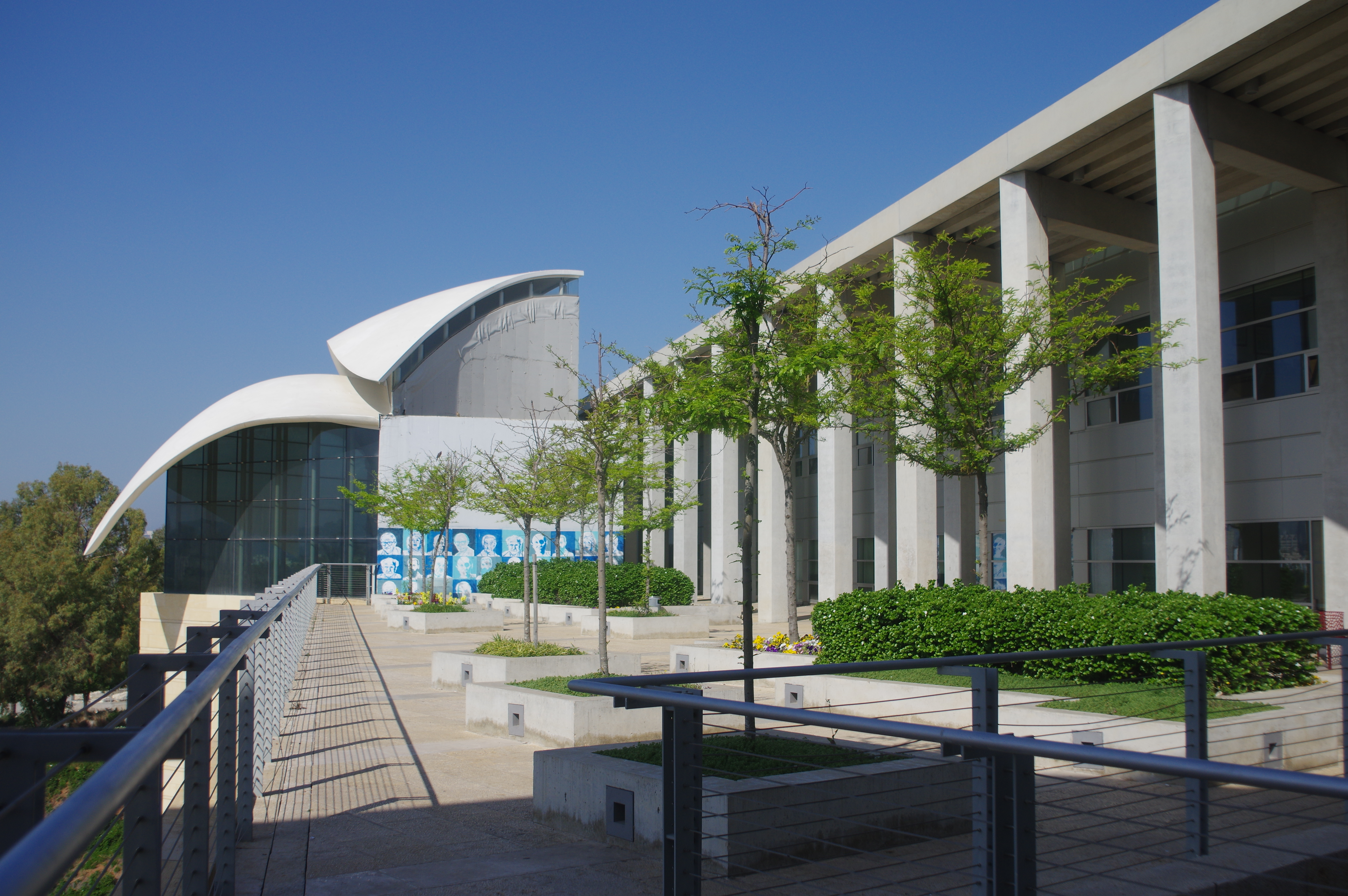 Rabin Center, Tel-Aviv